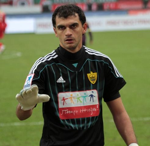 Vladimir Gabulov with FC Anzhi Makhachkala.